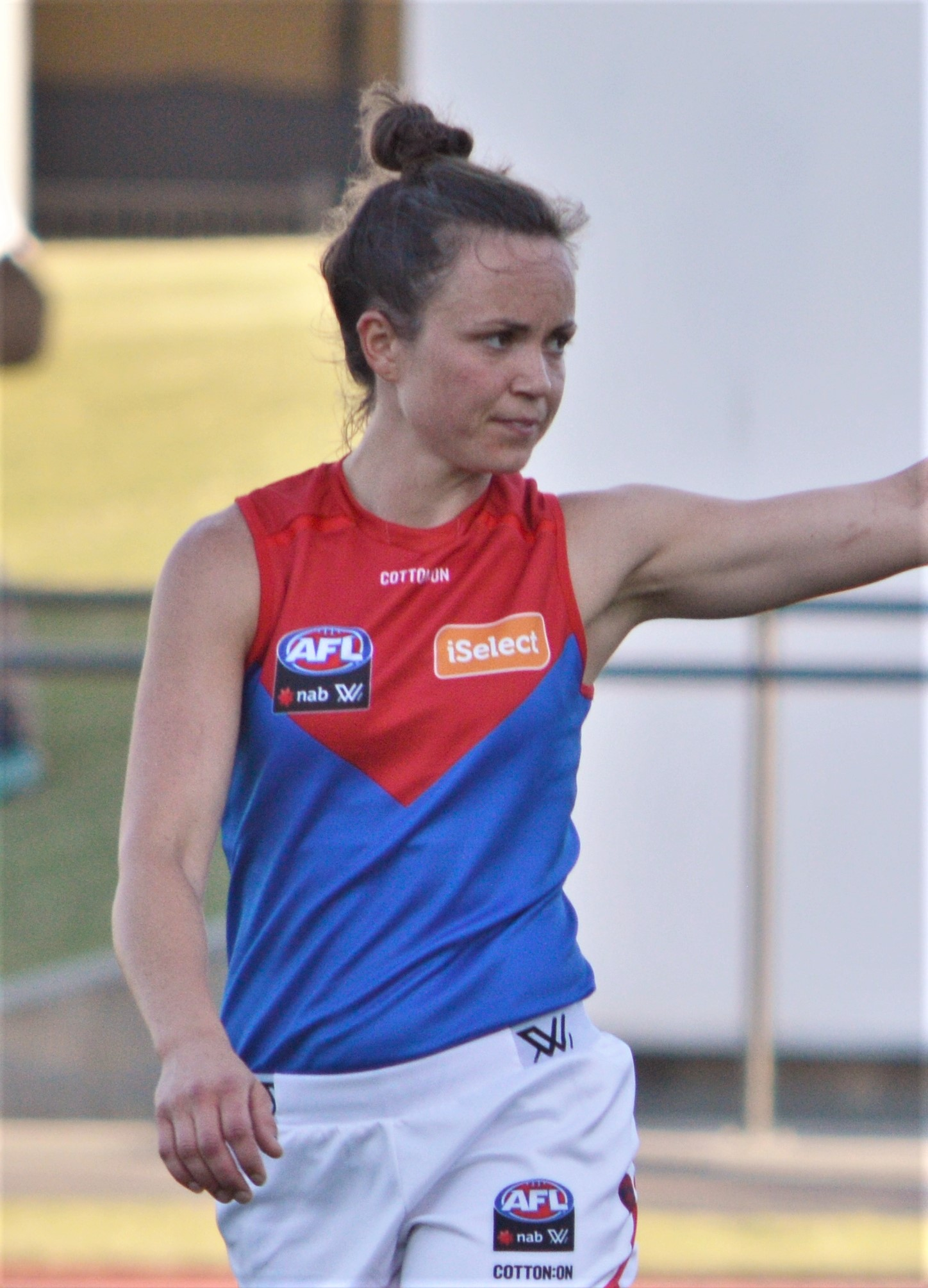 Daisy Pearce at the AFL Women's practice match between Collingwood and Melbourne in January 2018